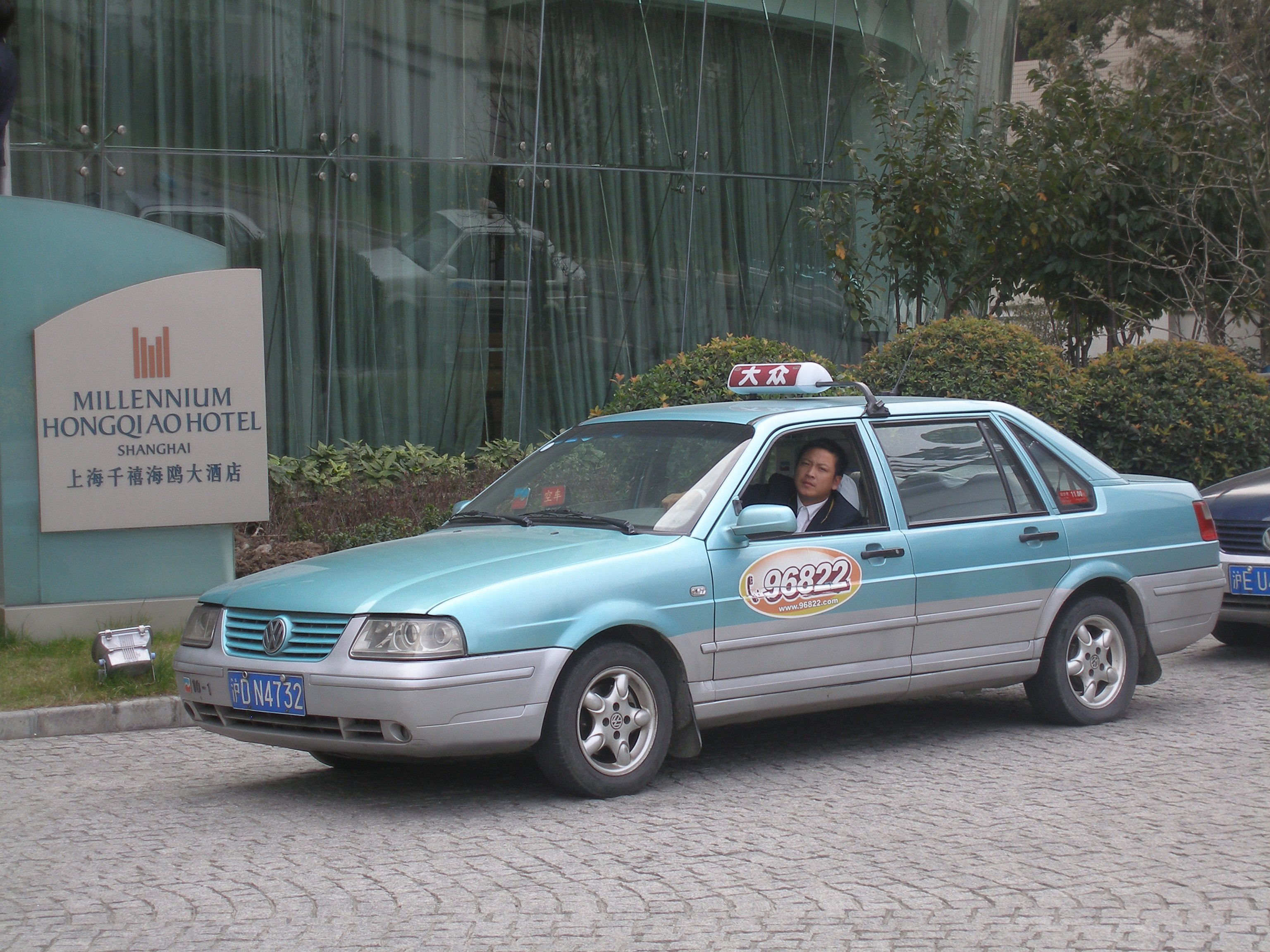 Chinese Volkswagen Santana taxi, in Shanghai.